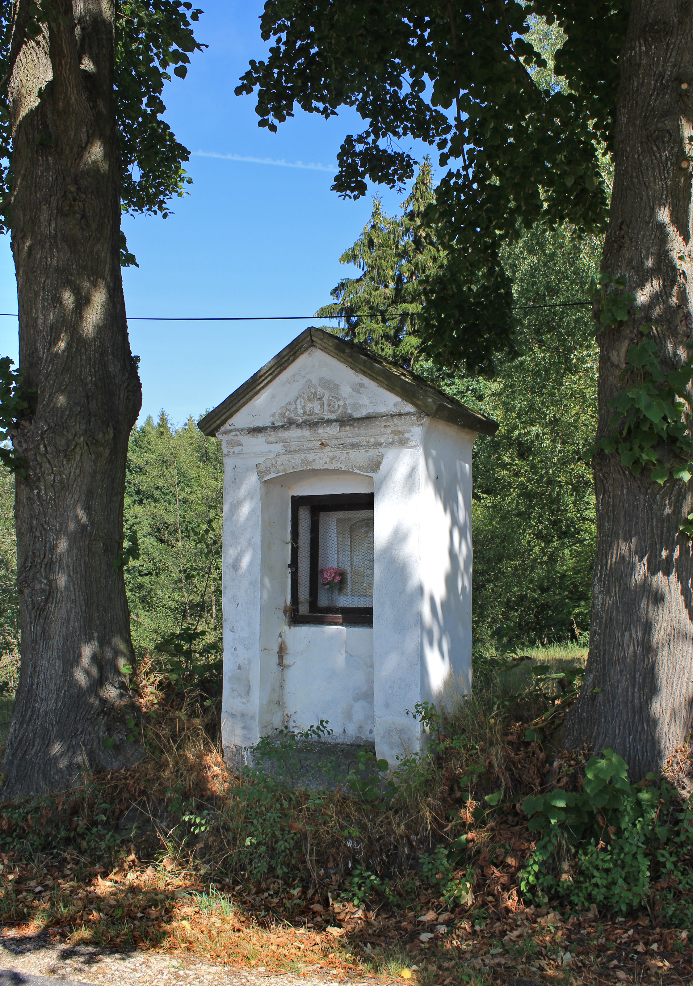 Small chapel by Dobrohošť, Czech Republic.